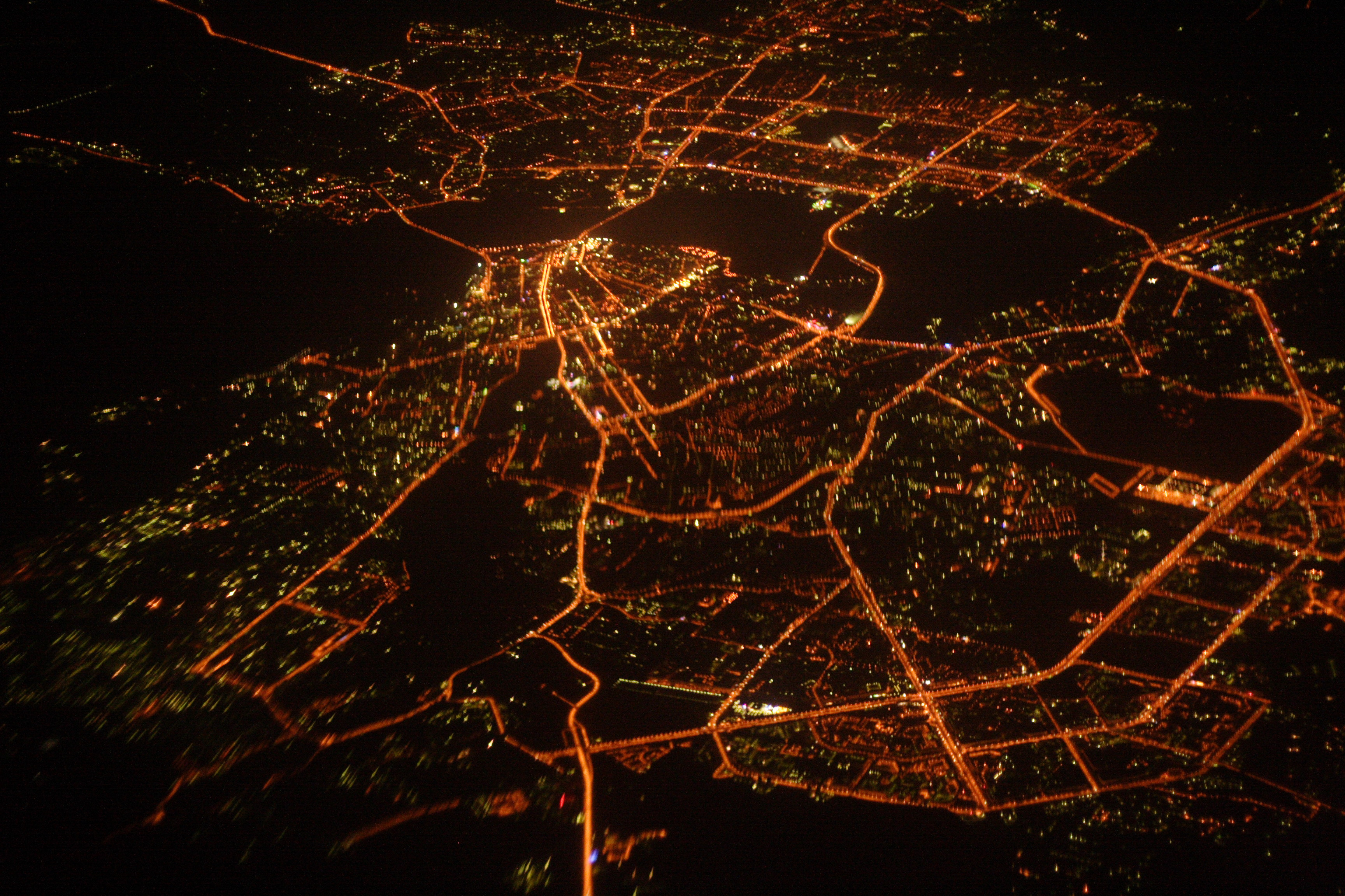 Aerial photo of Kazan, Russia, taken at about 12:15 am local time, from aboard a flight from Vienna to Ekaterinburg.